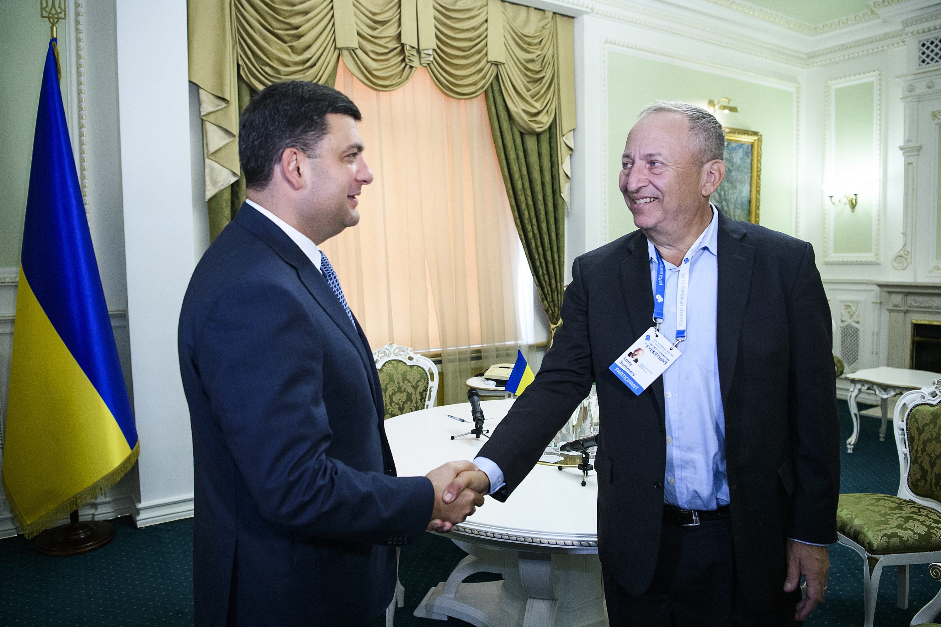 Prime Minister Volodymyr Groysman met with one of America's leading economists Lawrence H. Summers